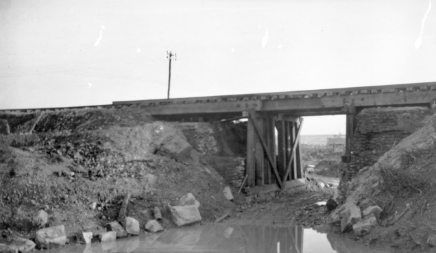 The Dernancourt railway bridge, after it had been repaired following its recapture in August 1918. Heavy fighting by the 52nd Battalion occurred at this point in the battle of 5 April 1918.